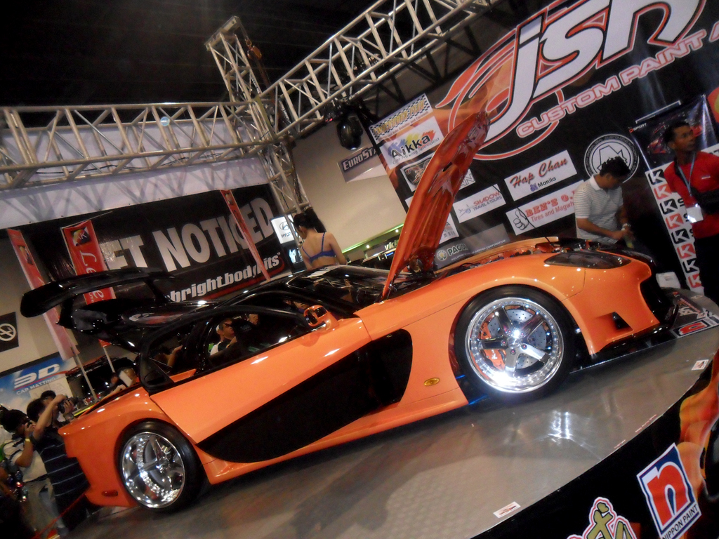 The VeilSide Mazda RX-7 Featured at Manila Auto Salon 2012.